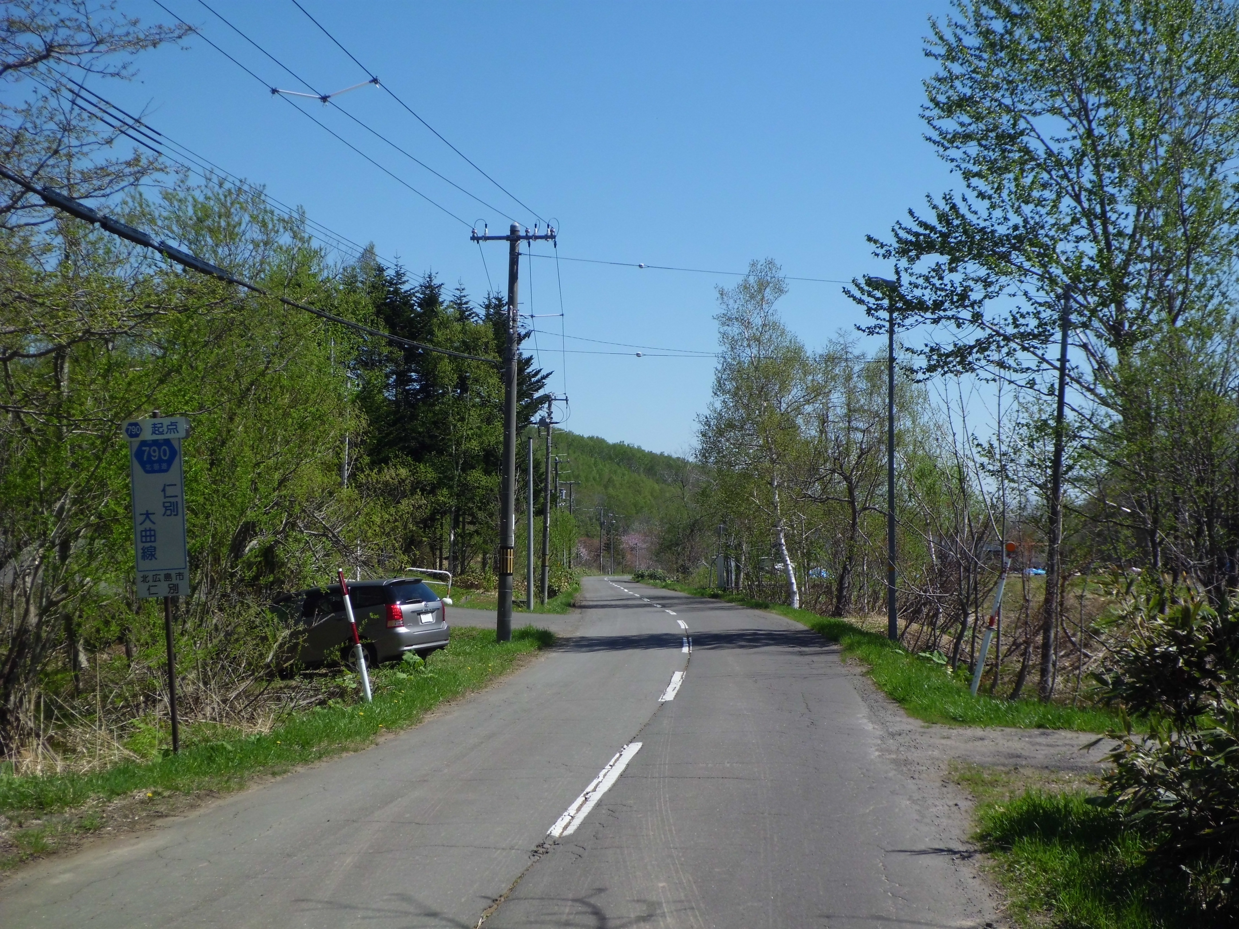 Origin of Hokkaido Prefectural Road 790 Nibetsu-Omagari Line